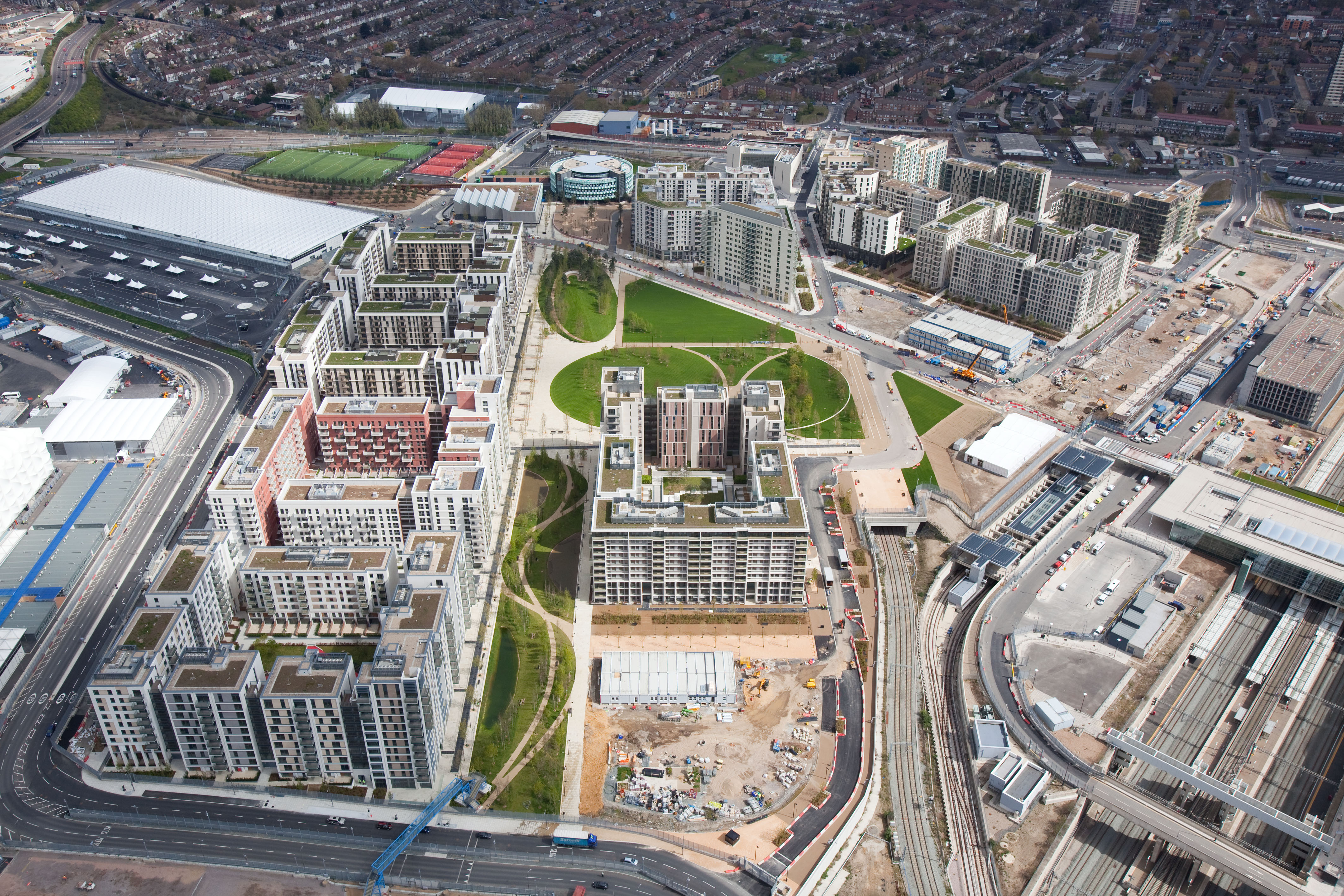 Construction of Olympic Park, London — April 2012. Aerial view of the Olympic Park — showing the Olympic and Paralympic Village and Stratford International railway station. Picture taken on 16 April 2012.